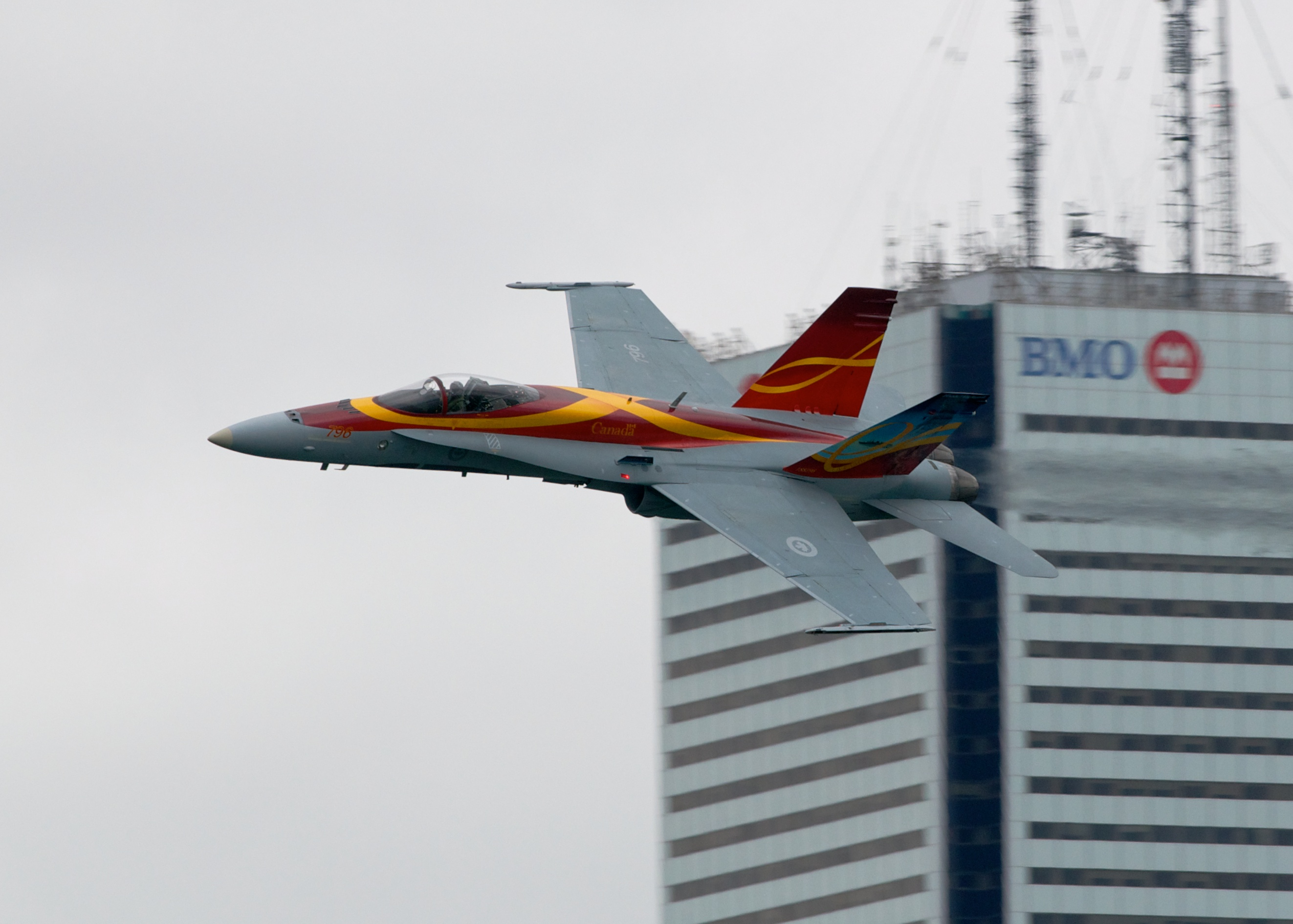 McDonnell-Douglas CF-188 Hornet s/n 188796, No 409 Squadron "Nighthawks". 2011 demo team paint scheme. Canadian International Air Show. Canadian International Air Show, Toronto.